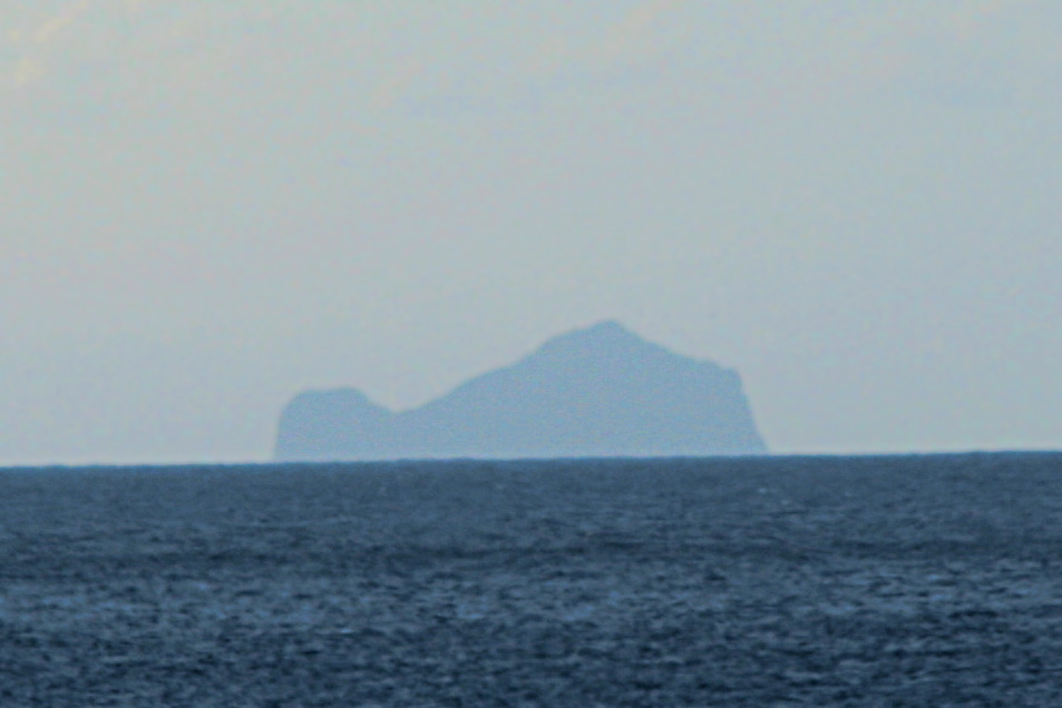 Motu Iti (Marquesas Islands) (or Hatu Iti) island, viewed from Nuku Hiva, Marquesas Islands, French Polynesia.